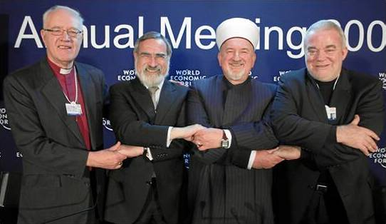 DAVOS-KLOSTERS/SWITZERLAND, 30JAN09 - Lord Carey of Clifton(VLTR), Archbishop of Canterbury (1991-2002), United Kingdomduring, Jonathan Sacks, Chief Rabbi of the United Hebrew Congregations of the Commonwealth, United Kingdom, Mustafa Ceric, Grand Mufti of Bosnia, Bosnia and Herzegovina, Jim Wallis, Editor-in-Chief and Chief Executive Officer, Sojournes, USA, , captured at the press conference 'Religious leaders call for the peace in the middle east' at the Annual Meeting 2009 of the World Economic Forum in Davos, Switzerland, January 30, 2009.